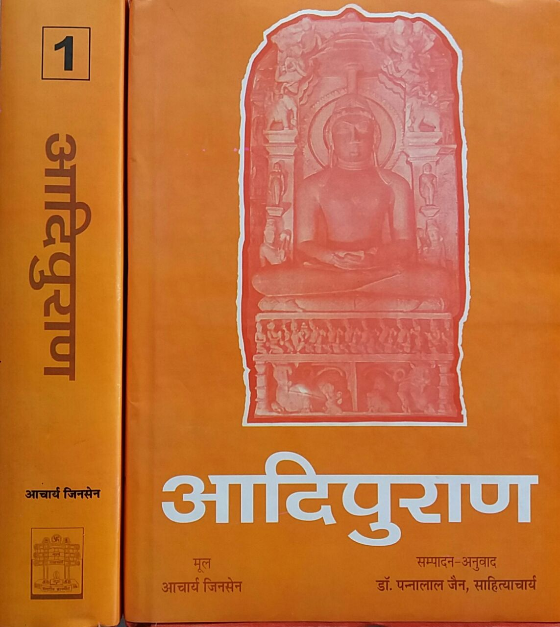 Jain book